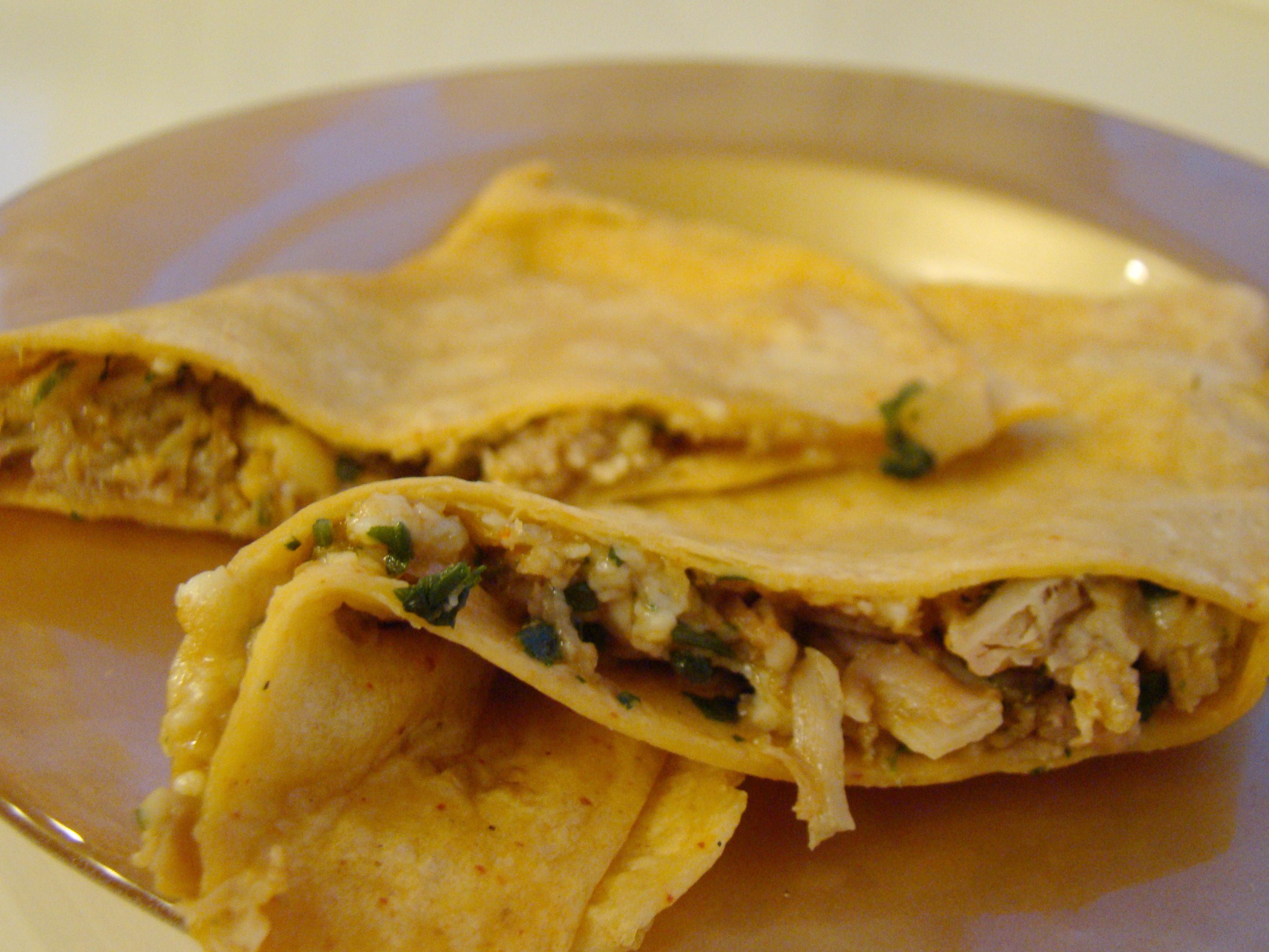 Vegan Cheezy Chipotle Quesadilla with Veggie Imitation Chicken